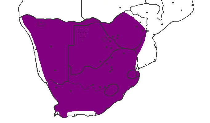 Range of the aardwolf (Proteles cristatus) in Southern Africa.